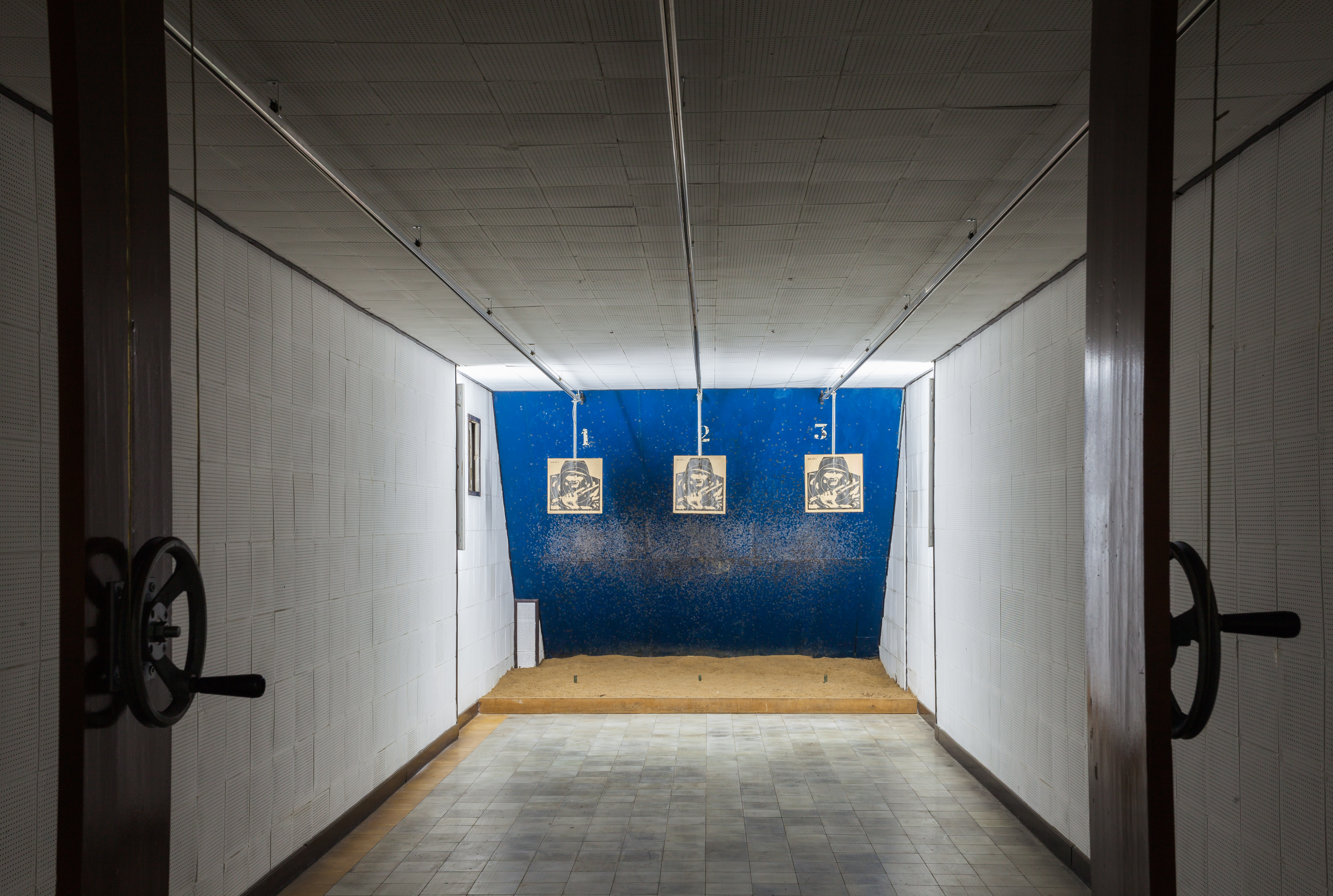 Shooting range, Reunification Palace, Ho Chi Minh City, Vietnam